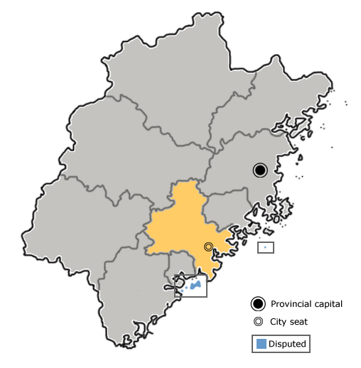 The prefecture-level city of Quanzhou is highlighted on this map of Fujian province, People's Republic of China.